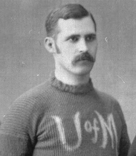 Photograph of Horace Prettyman